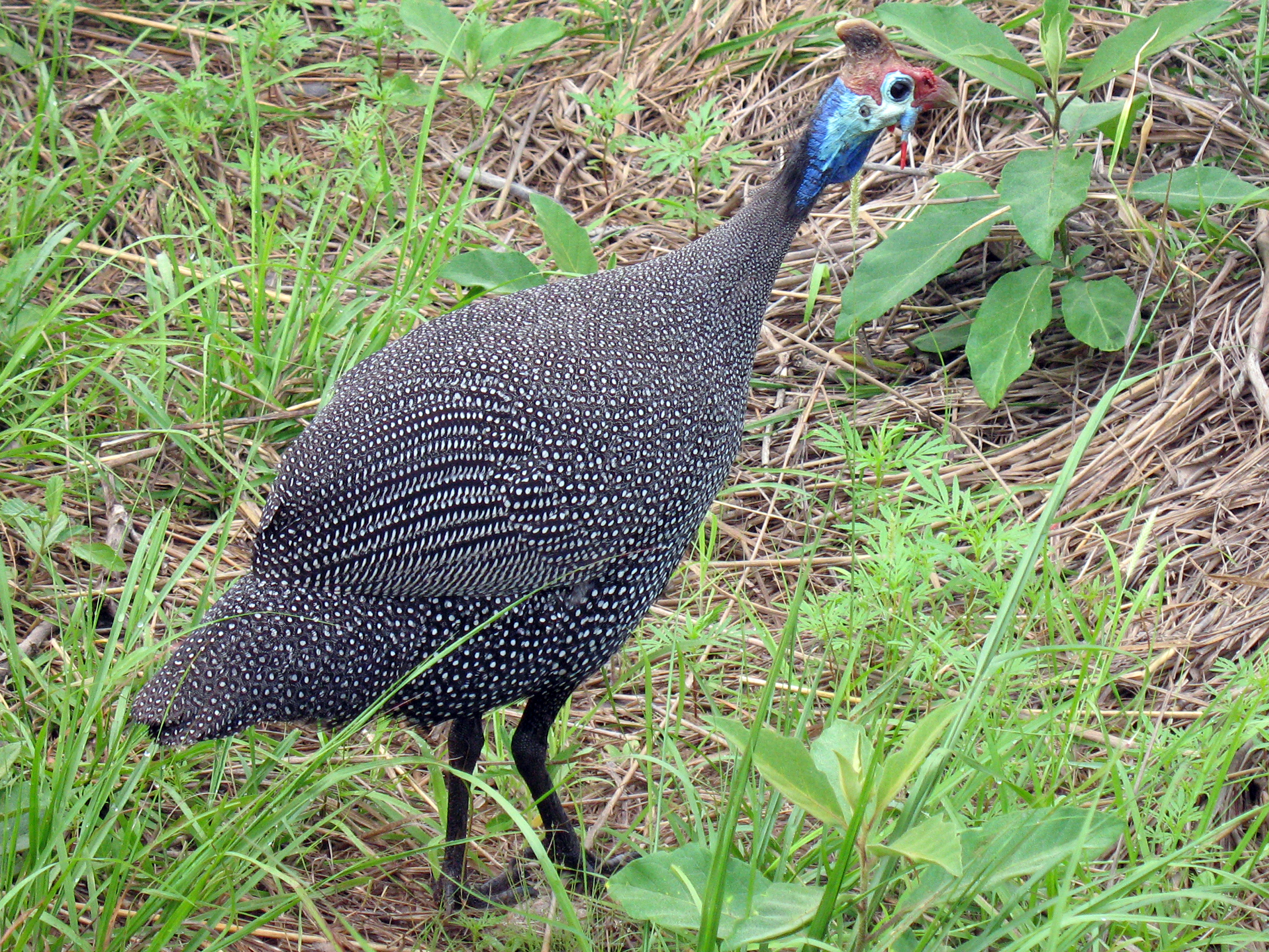 Kruger National Park: Helmeted guineafowl (Numida meleagris)